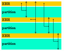 Description of values in the 2nd entry of EBR